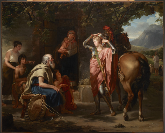 Erminia and the Shepherds